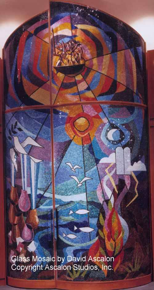 Old Testament Contemporary glass mosaic ark for Congregation B'nai Israel, Tustin, California by David Ascalon, Ascalon Studios, Inc. Copyright Ascalon Studios, Inc. Photograph may be reproduced providing attribution is given to artist of the work, David Ascalon, Ascalon Studios, Inc. The artwork itself is the copyright of Ascalon Studios, Inc., All Rights Reserved, and may NOT be recreated. I am the photographer of this photo and the owner of its copyright. I grant license under GFDL. This image should not be deleted. Eric Ascalon, Ascalon Studios, Inc. Permission: OTRS Ticket#: 2006042610000487